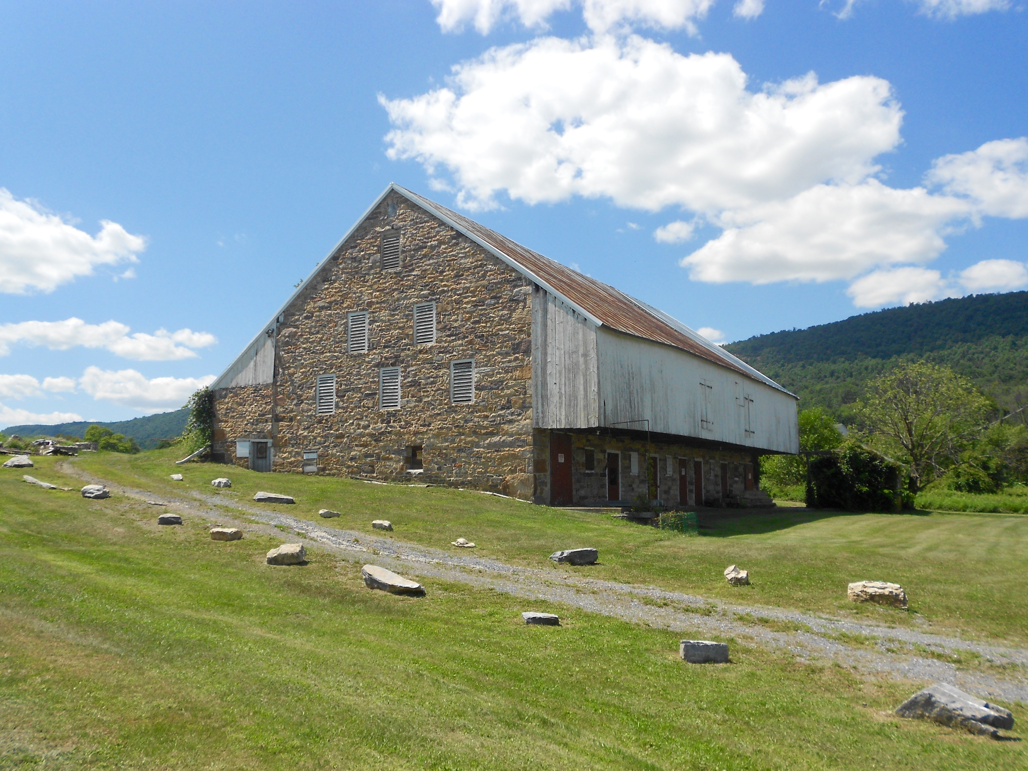 Barn in North Middleton Township, Cumberland County, Pennsylvania at corner of PA 74 and PA 944